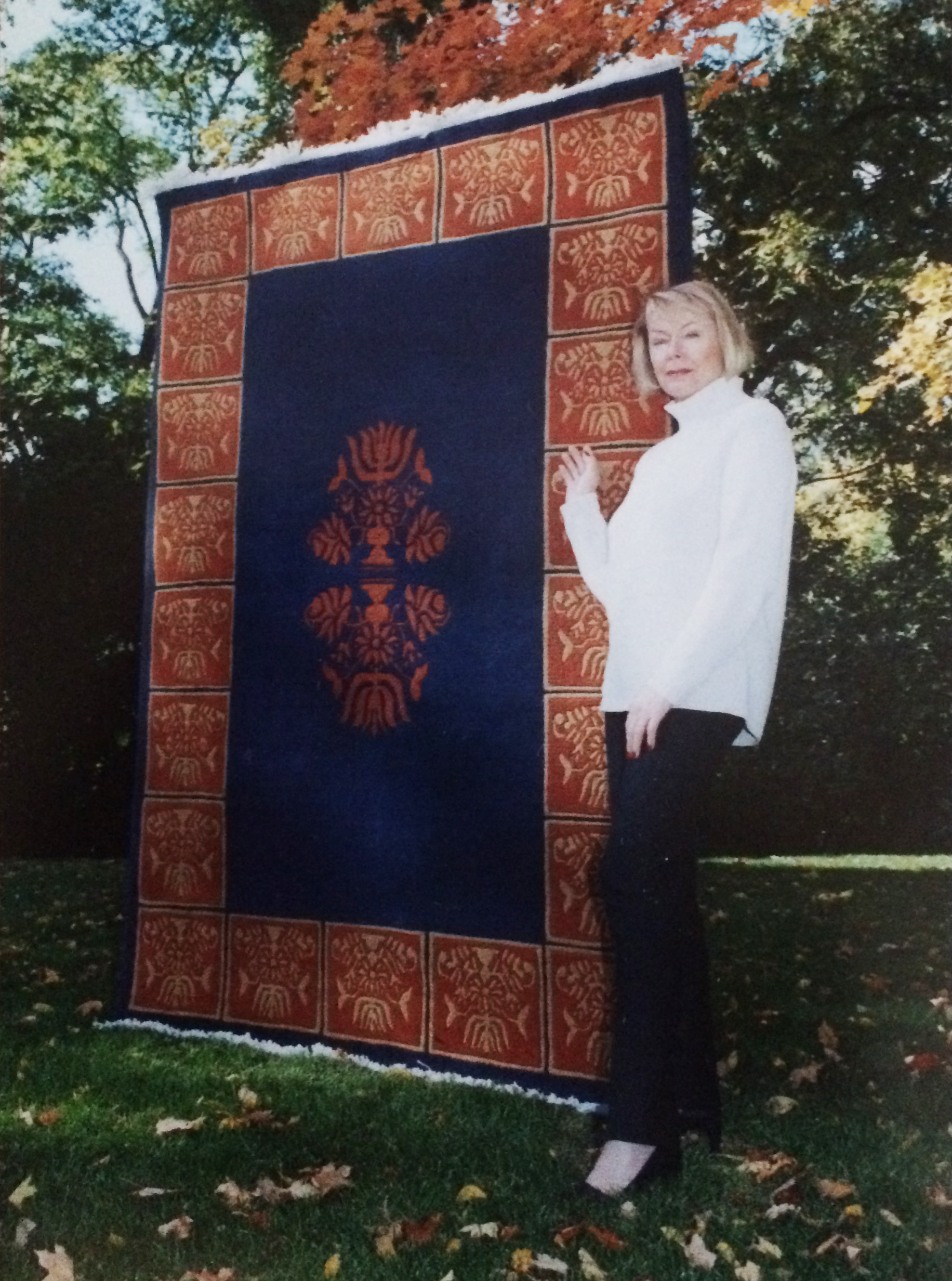 Carpet designed by the Norwegian designer Lise Skjåk Bræk (in the photo)